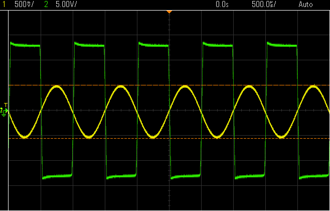 An oscillogram showing the clipped output of a ~200 gain inverting amplifier with a ±14 VDC power supply. Signal 1 (yellow) is the 1 KHz, 1.07 Vpp sine input. Signal 2 (green) is output clipped to 27.3 Vpp. This is crop from an Agilent Technologies oscilloscope screenshot.